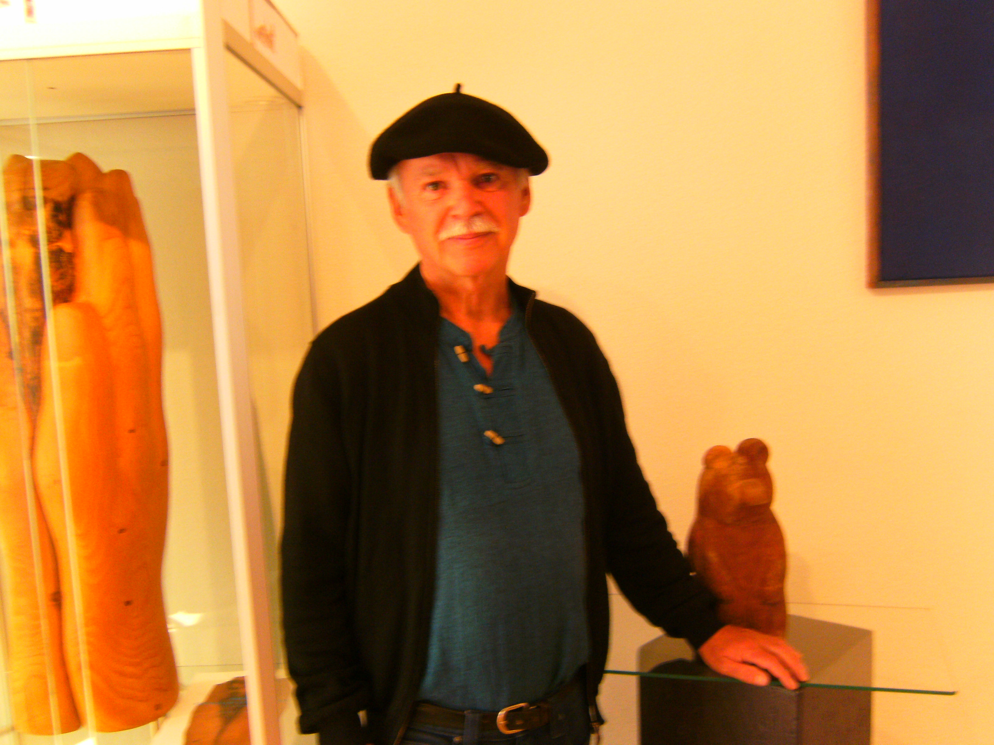 Wood-carver Georg Cornelius Freundorfner (* 17. April 1951 in Bad Waldsee, Germany) in his gallery in Meersburg am Bodensee, Germany, Höllgasse 6.